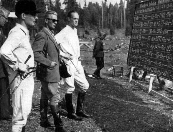 The German competitors in the Three-Day event at the 1952 Summer Olympics : Rothe, Wagner and Büsing.